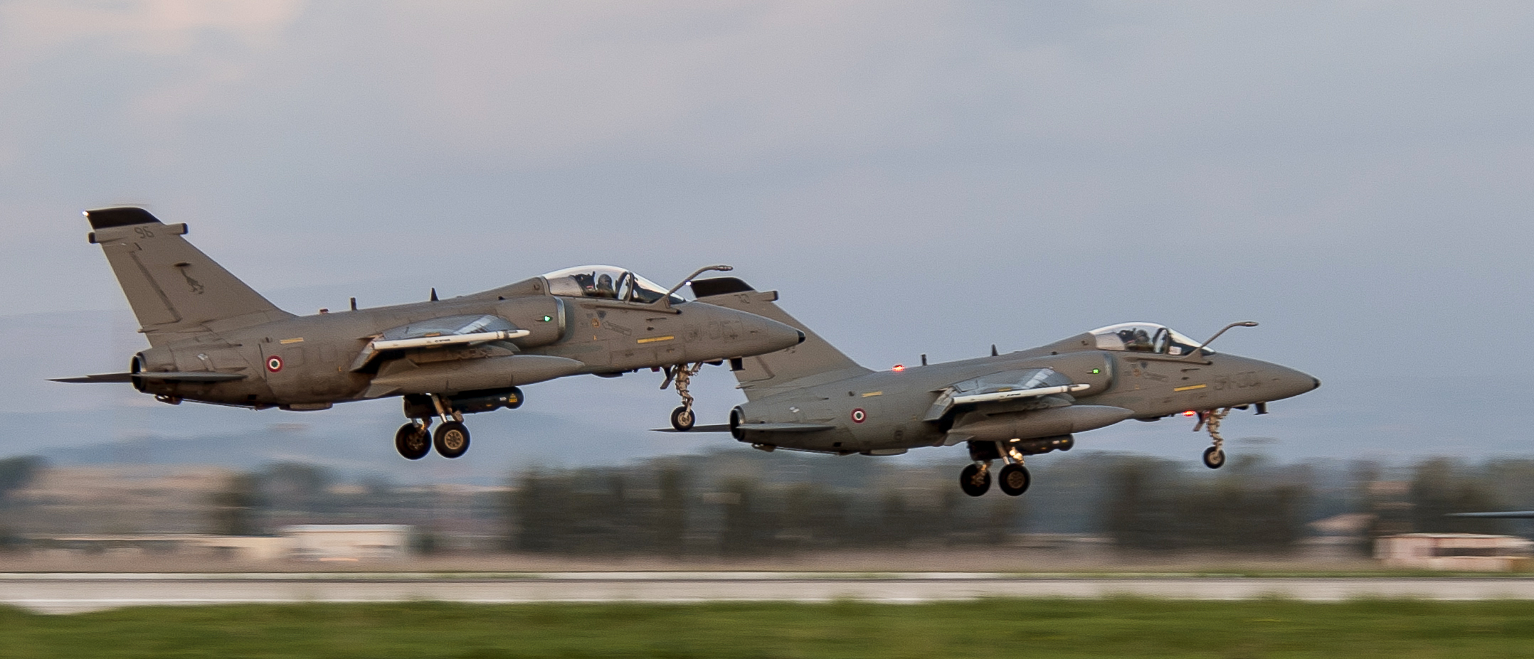 It.A.F. AMX's taking off for COMAO mission NATO photo by Antonio VALENTINO